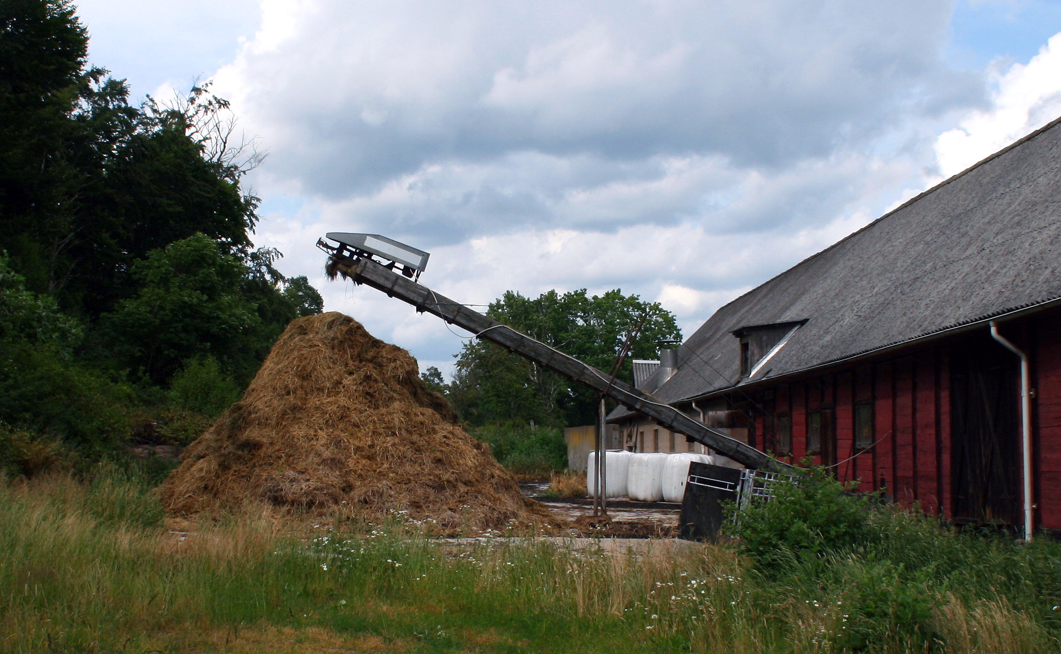 Dunghill